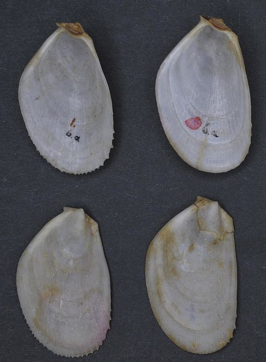 Limaria hians (Gmelin, 1791), Limidae, Bivalvia, Mollusca, Naturalis Biodiversity Center - RMNH.MOL.319249